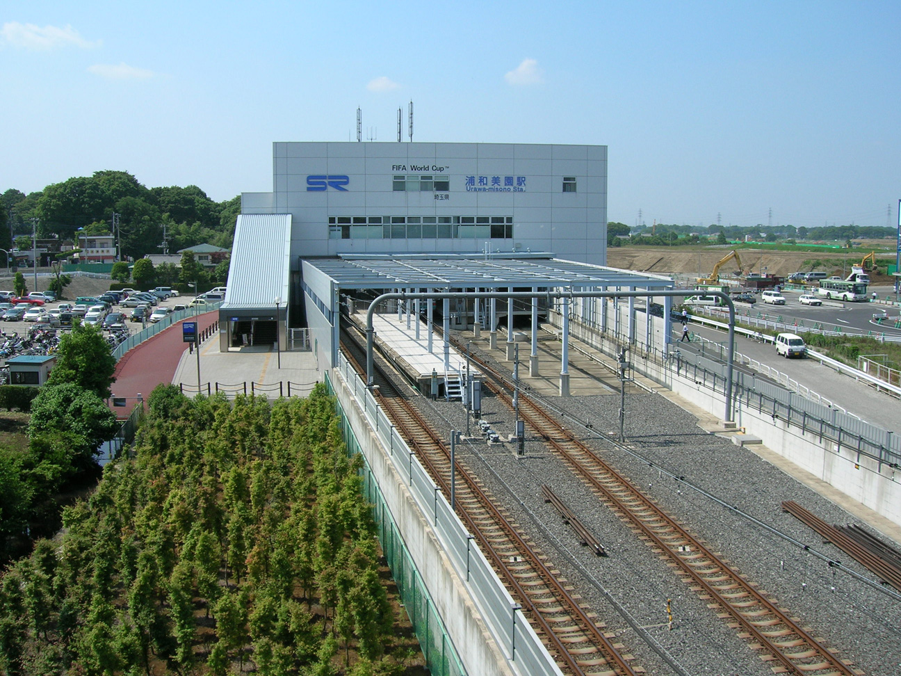 South View of Urawa-Misono Station